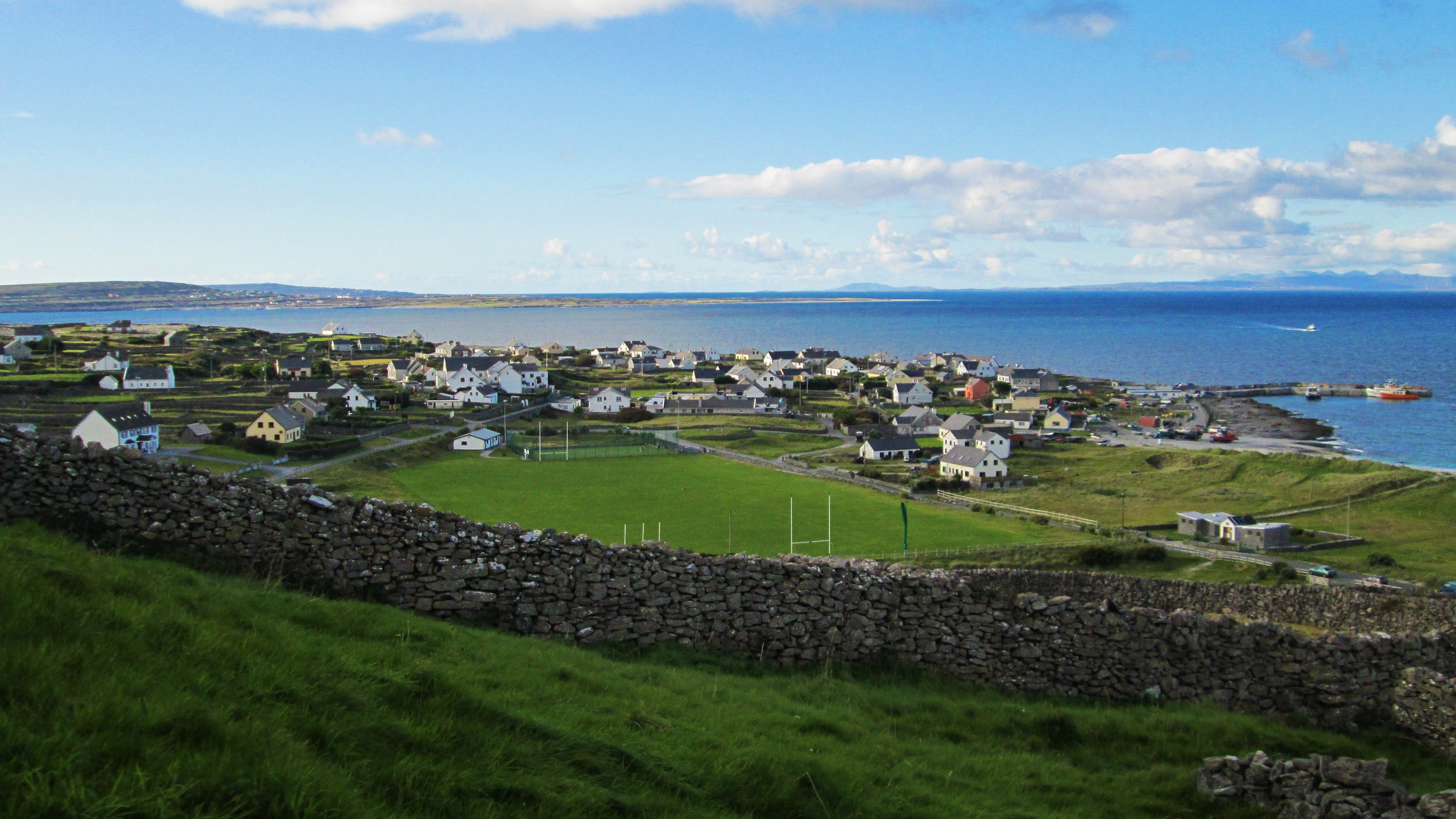 The Village at Inisheer, Aran Islands - Oct 2017